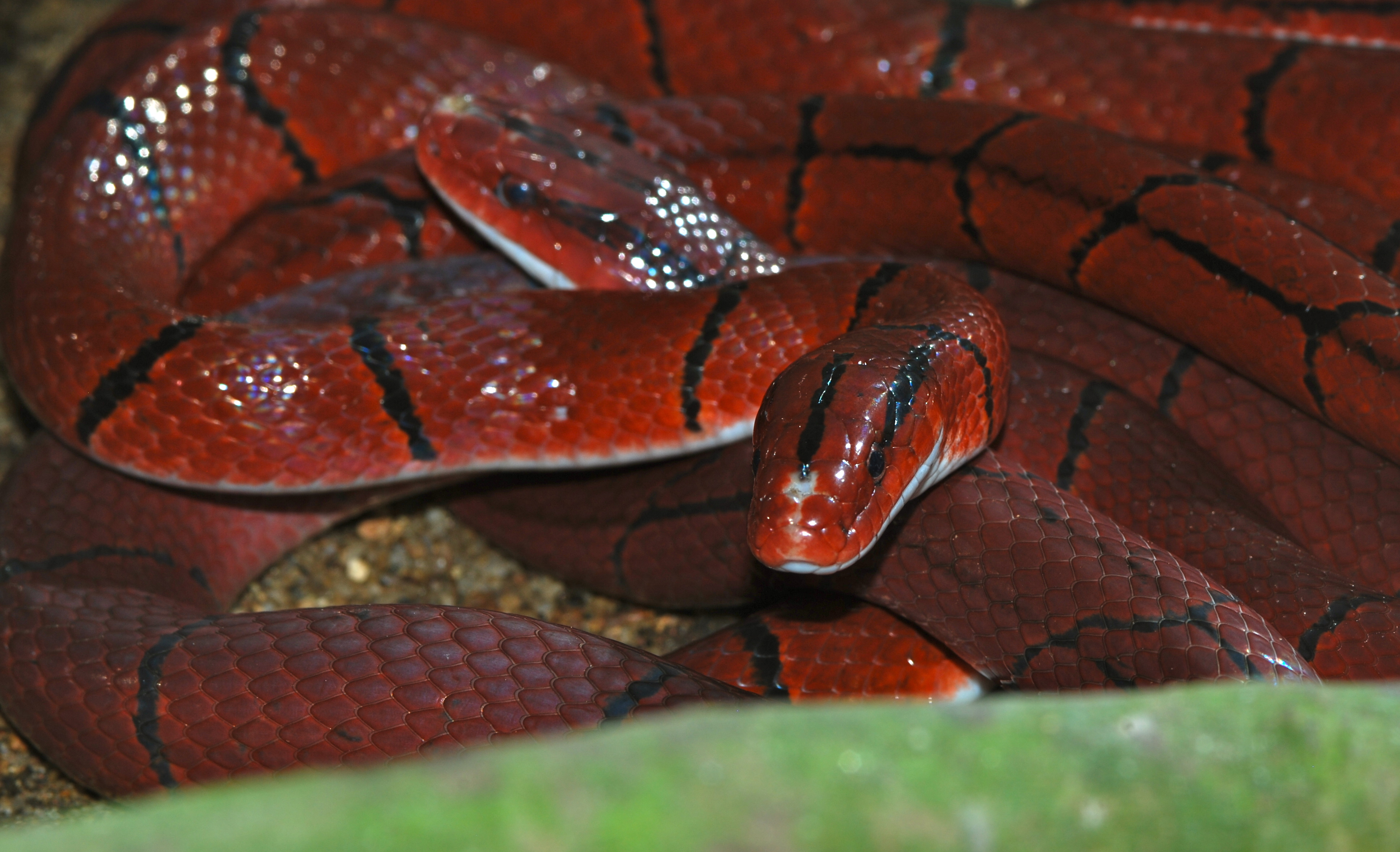 Butterfly Garden, Brinchang, Cameron Highlands, Pahang, MALAYSIA